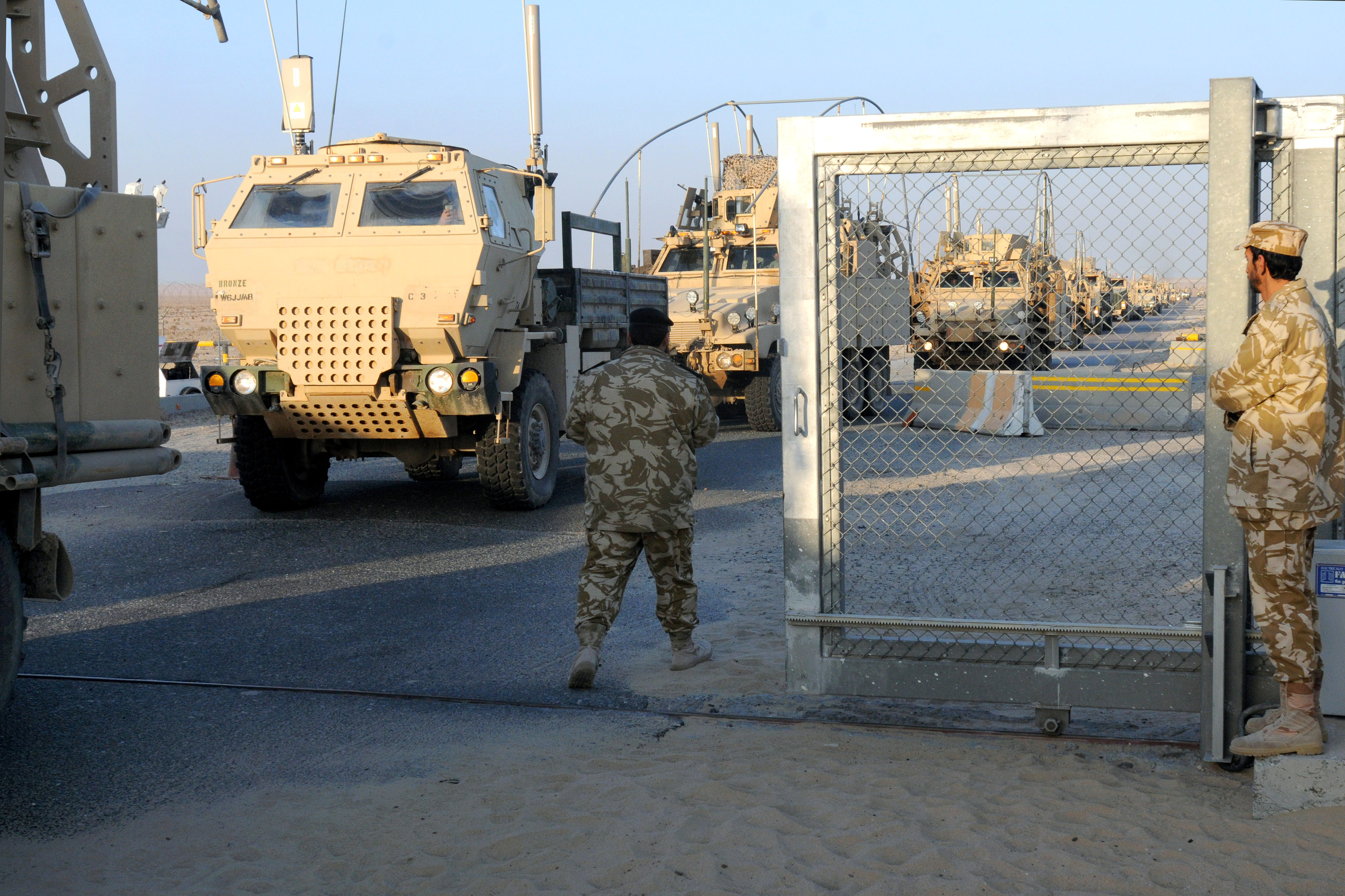 Kuwaiti soldiers look on as the last U.S. convoy crosses the border into Kuwait from Iraq, Dec. 18, 2011. U.S. Army photo by Cpl. Jordan Johnson.